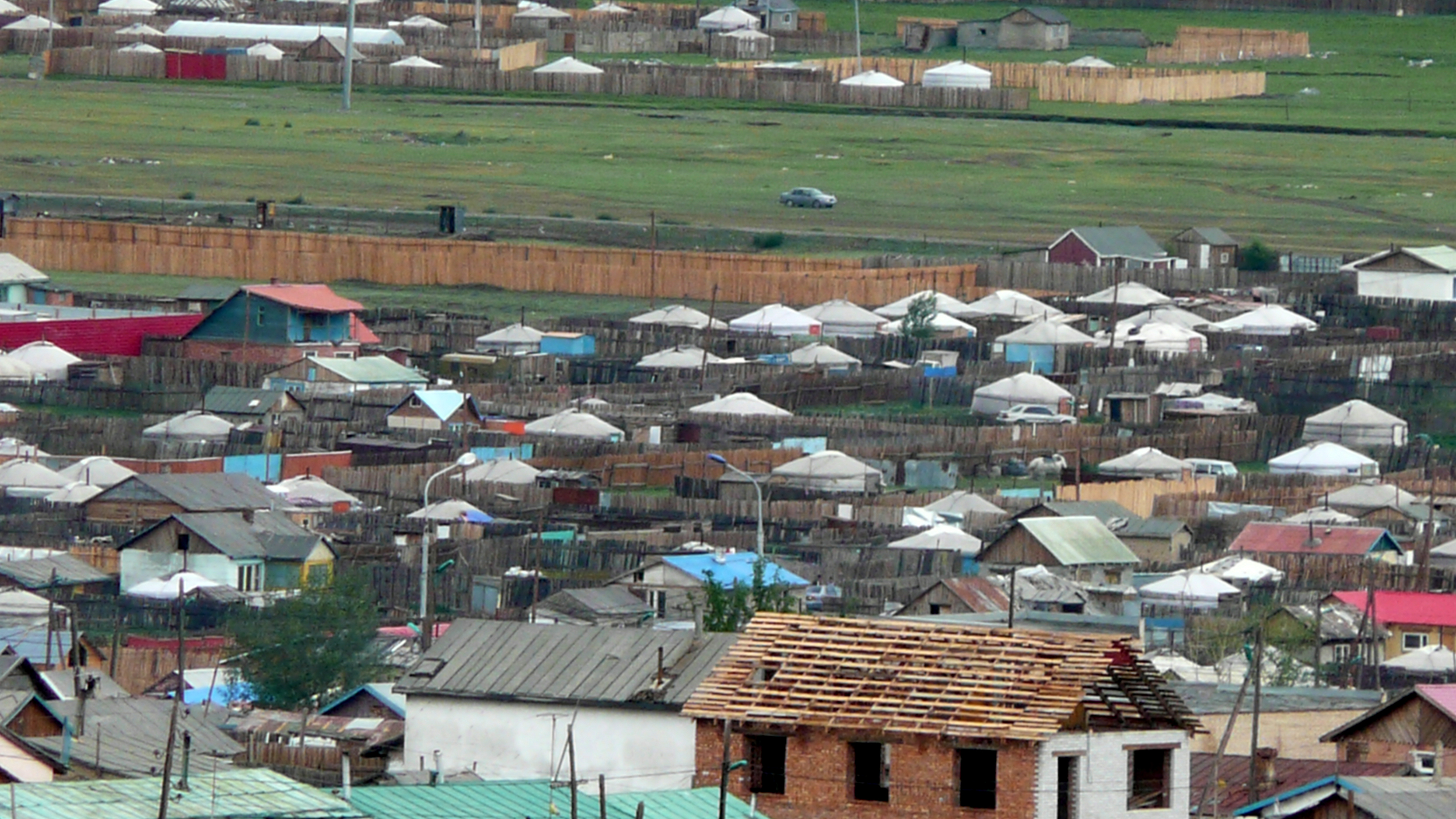 Yurts in Ulan Bator